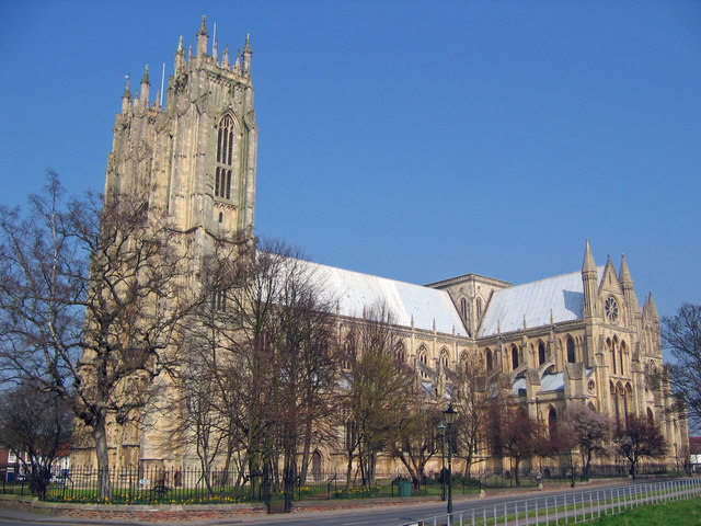 Beverley Minster, Beverley, East Riding of Yorkshire, England.